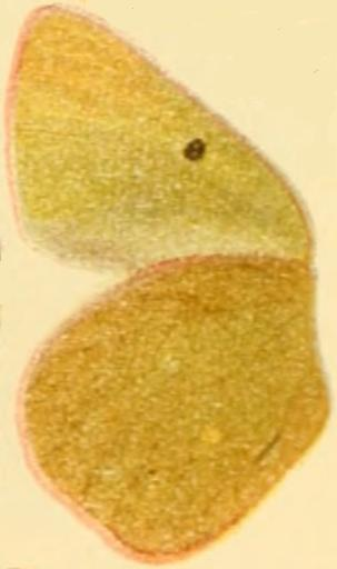 Plate from The Macrolepidoptera of the World. Vol. 1: Colias wiskotti